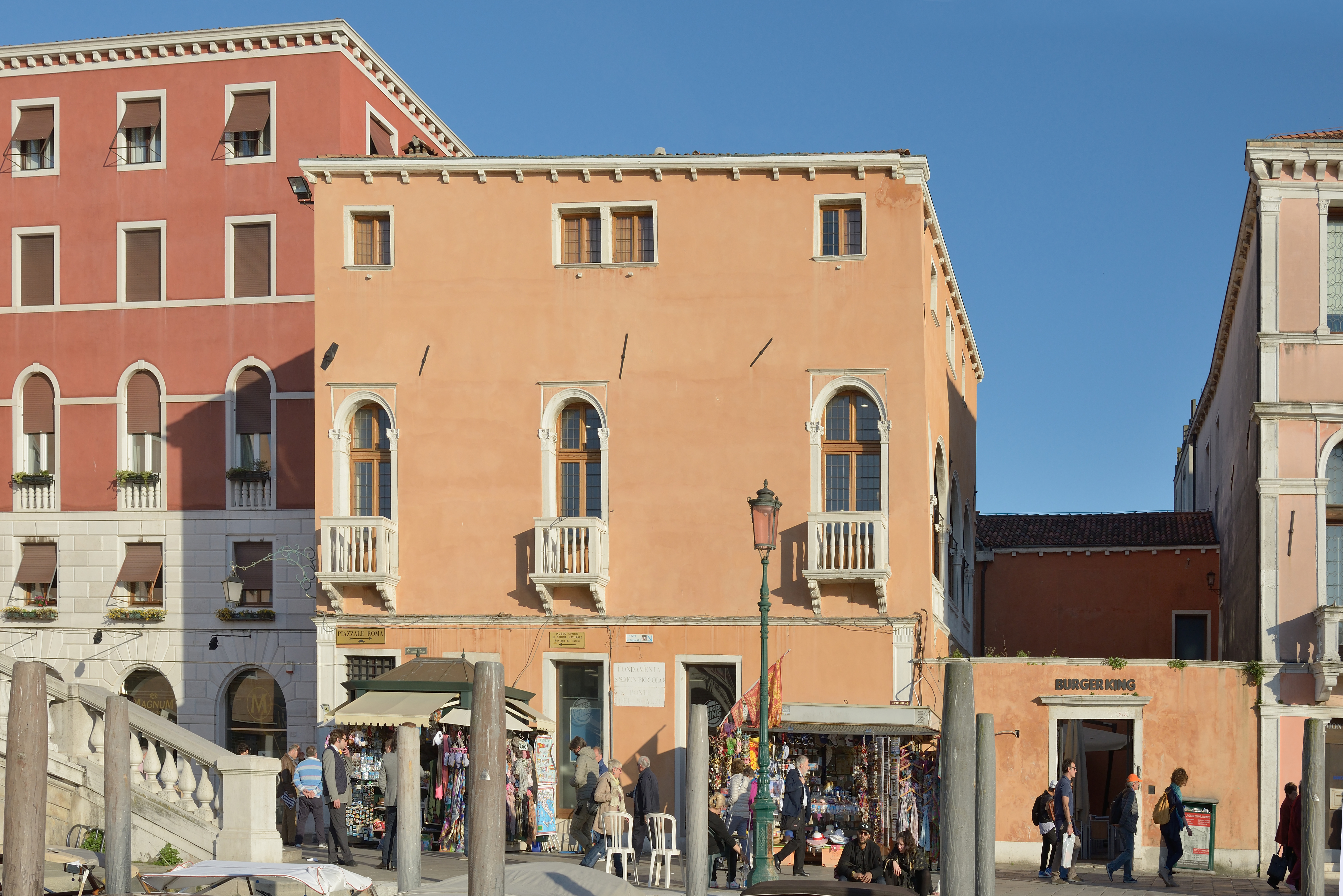 Facade of Palazzo Foscari Contarini on the Canal Grande in Venice.